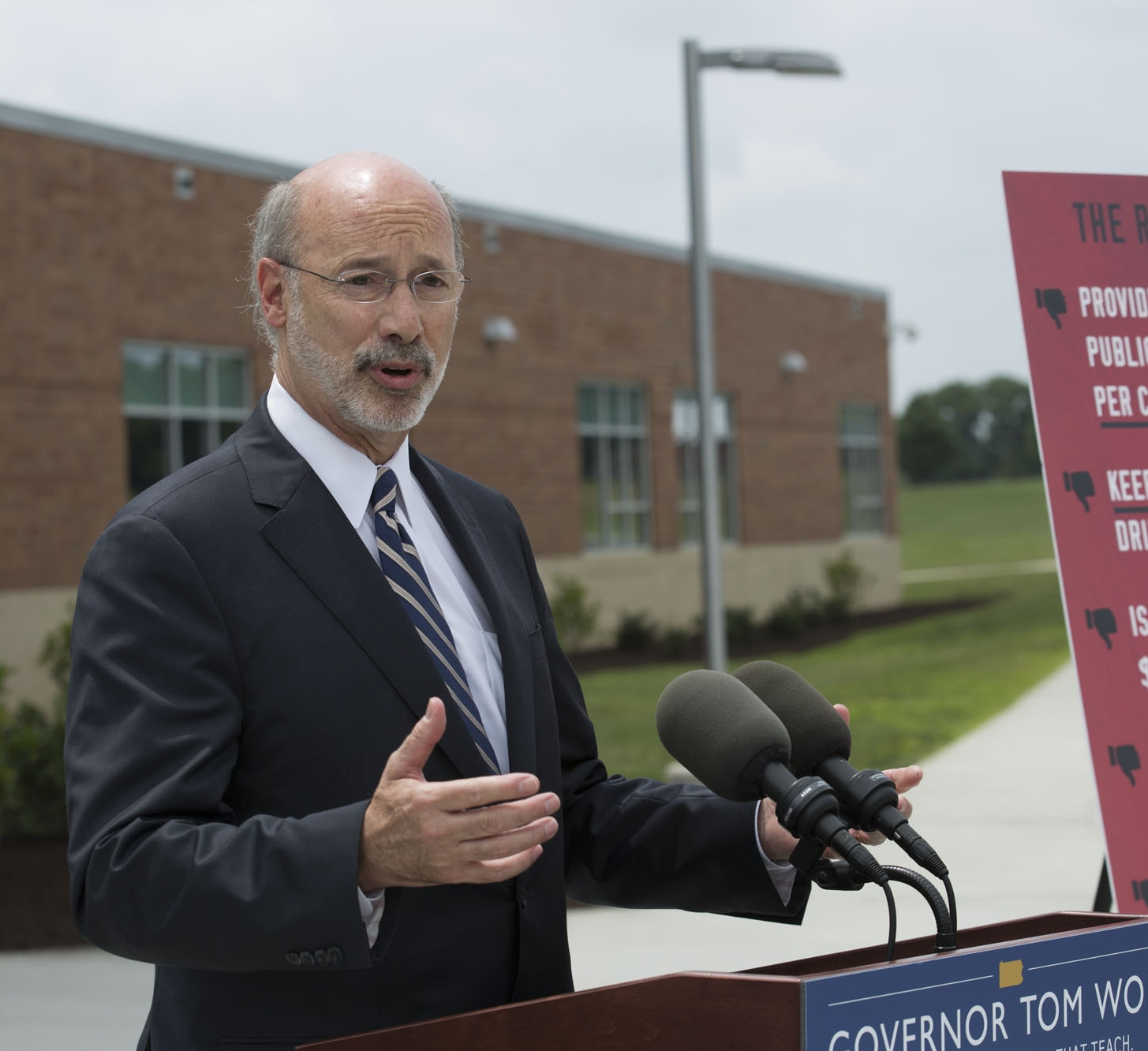 July 9, 2015 Lancaster, PA